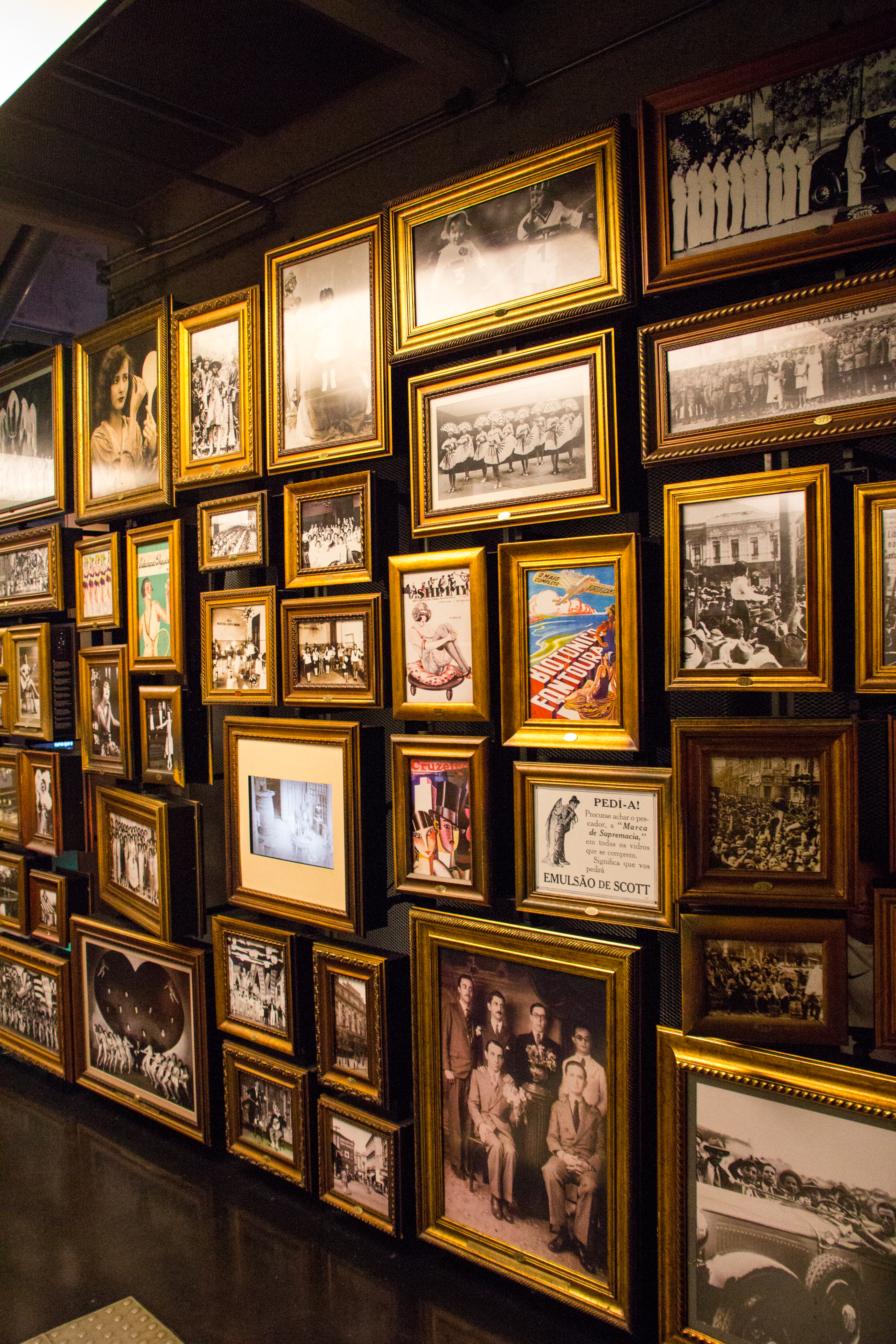 Museu do Futebol, São Paulo, Brazil